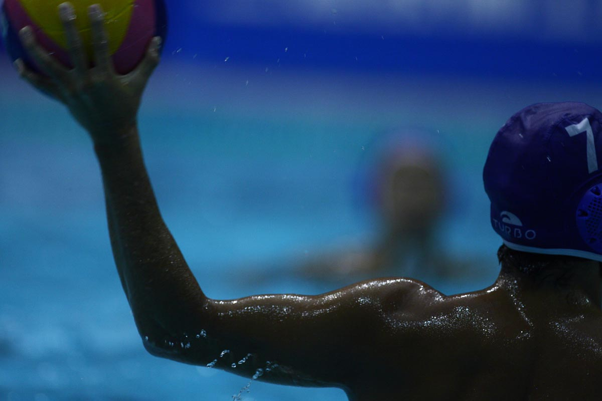 SEPTEMBER 25, 2009 - Water Polo : All Japan Water Polo Championships at Yokohama International Pool on September 25, 2009 in Kanagawa, Japan. (Photo by Tsutomu Takasu)